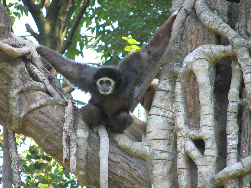 White Handed Gibbon at Cincinnati Zoo